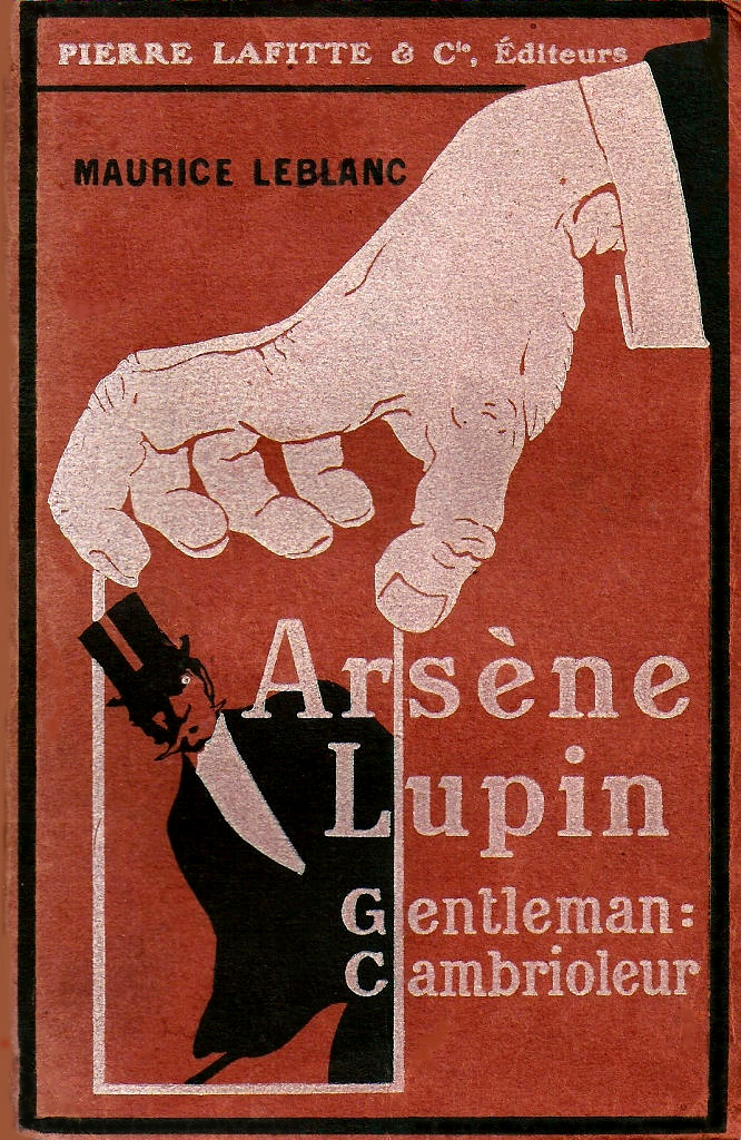 Cover of the first French edition of "The Extraordinary Adventures of Arsene Lupin, Gentleman Burglar" published in 1907. The Extraordinary Adventures of Arsene Lupin, Gentleman Burglar (1910)